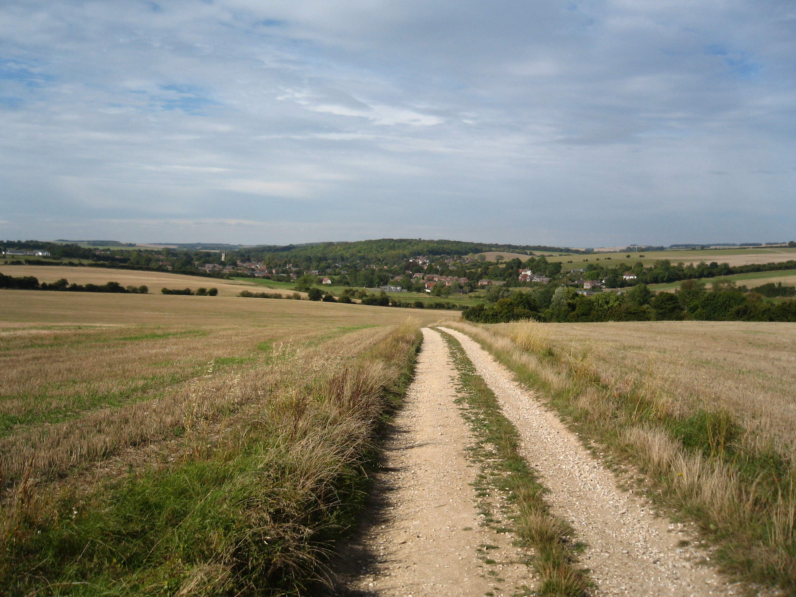 Lambourn, Berkshire from south-east